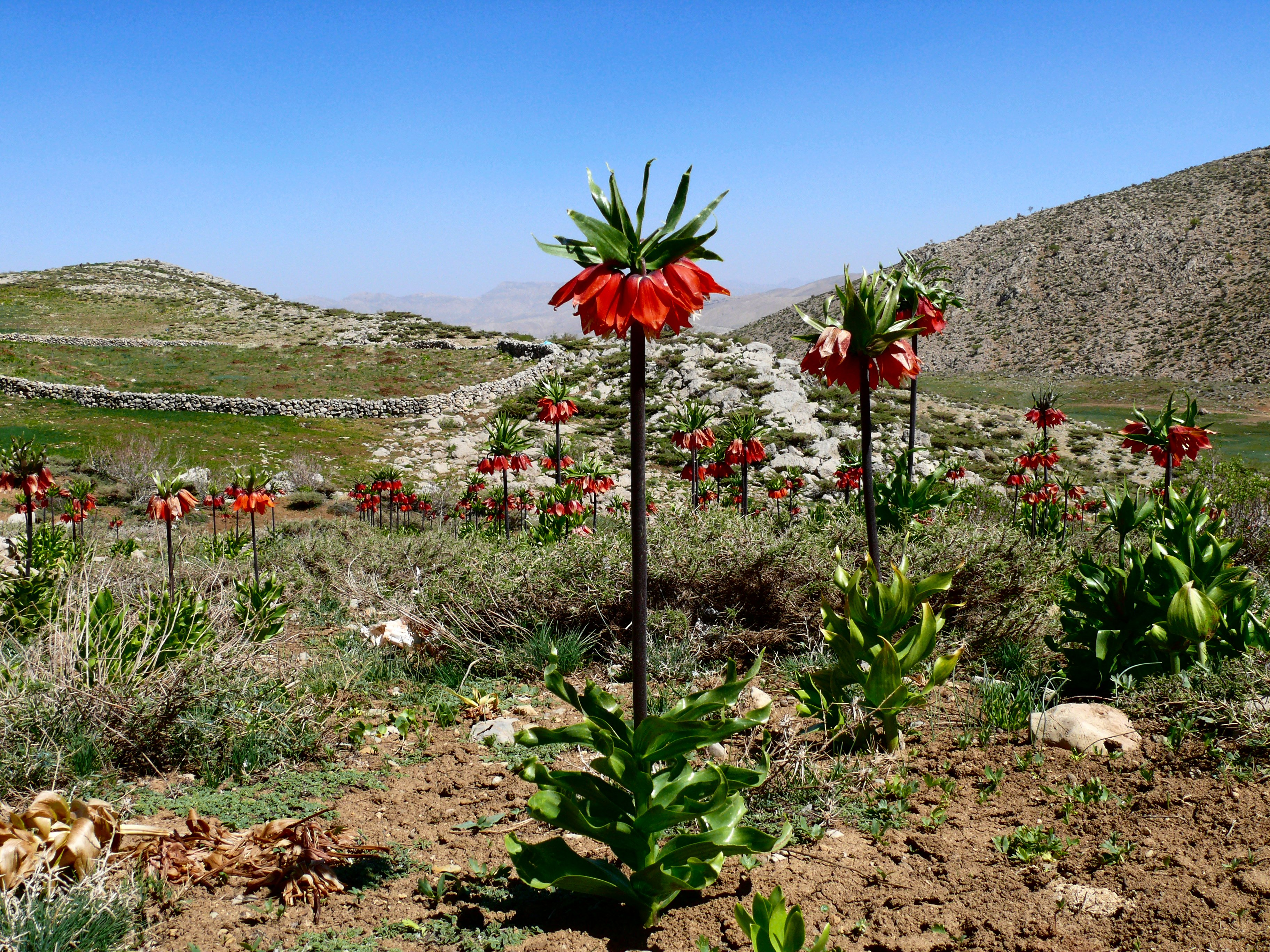 "Gole ashk", literally "tear flower", known in english as "Imperial crowns", Latin name Fritillaria imperialis. Area of Sepidan, Fars province, Iran, April 2008